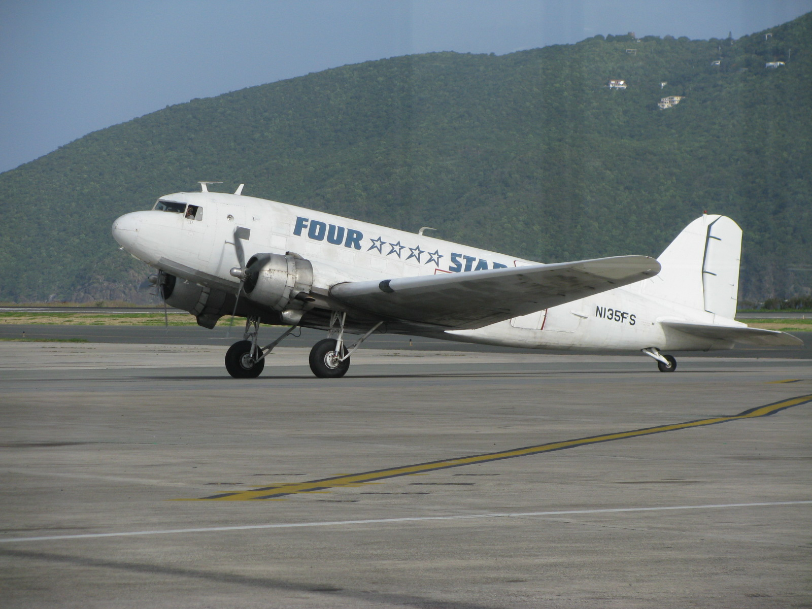 Four_Star_Air_Cargo DC-3 with tail number N135FS at St. Thomas Airport.